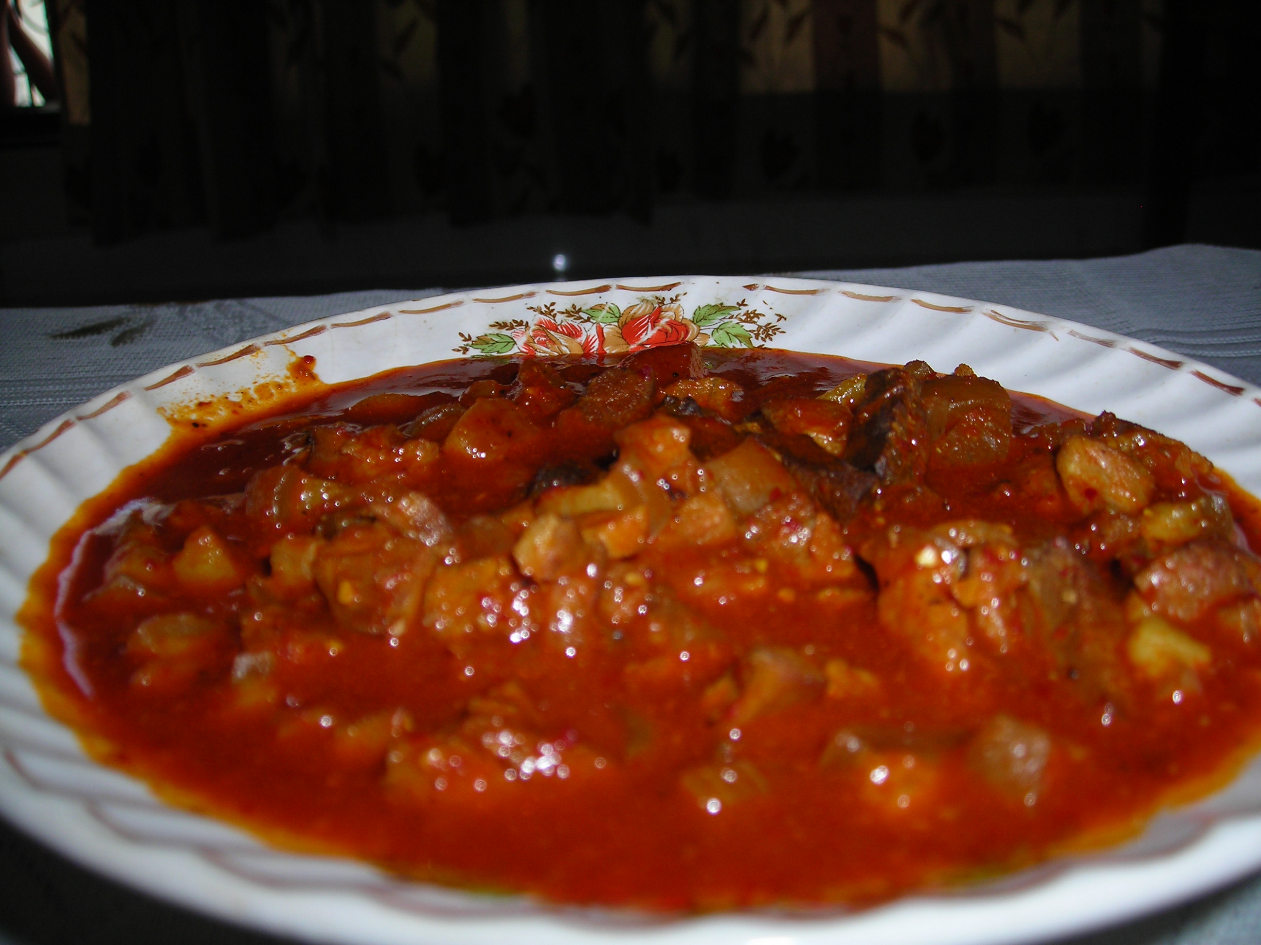 Pork Sorpotel, a very popular dish of the Goan Catholics.